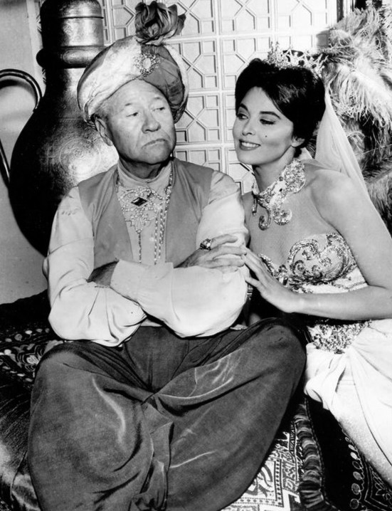 Publicity photo of Jack Oakie and Tina Louise from the television program The New Breed. The episode, "I Remember Murder", takes place at a movie studio.